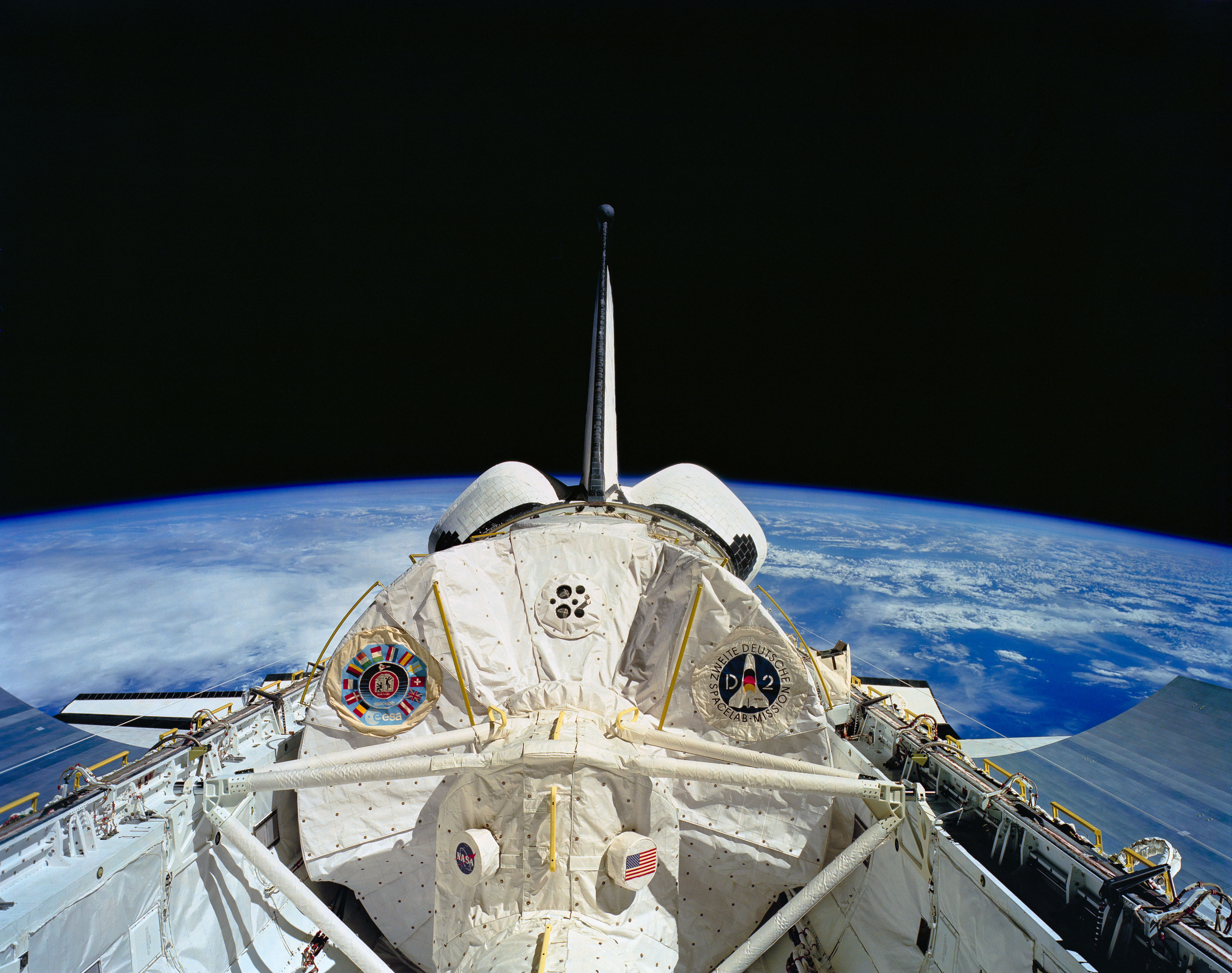 Spacelab Deutsche 2 (SL-D2) science module and spacelab (SL) long tunnel is documented in the payload bay (PLB) of the Earth-orbiting Columbia, Orbiter Vehicle (OV) 102. The support struts and handrails on the SL joggle section are visible in the foreground with the SL-D2 flex section and interface behind it. On the SL-D2 module forward end cone applied to the thermal blanket cover are the insignias of the European Space Agency (ESA) (left) and the SL-D2 payload. In the background are OV-102's vertical tail and the two orbital maneuvering system (OMS) pods backdropped against the cloud-covered Earth surface and the blackness of space.